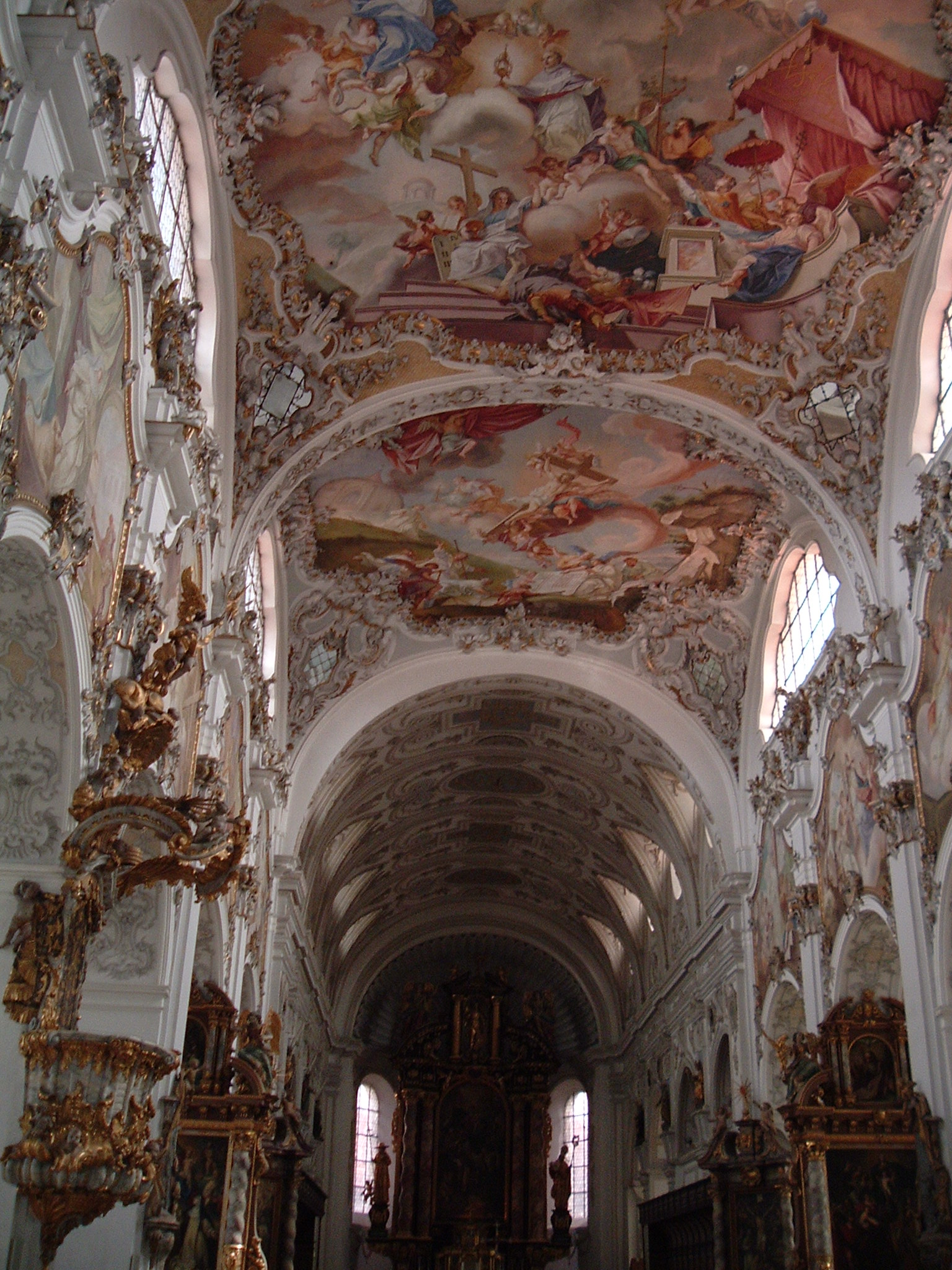 I take the photo myself. April 2004